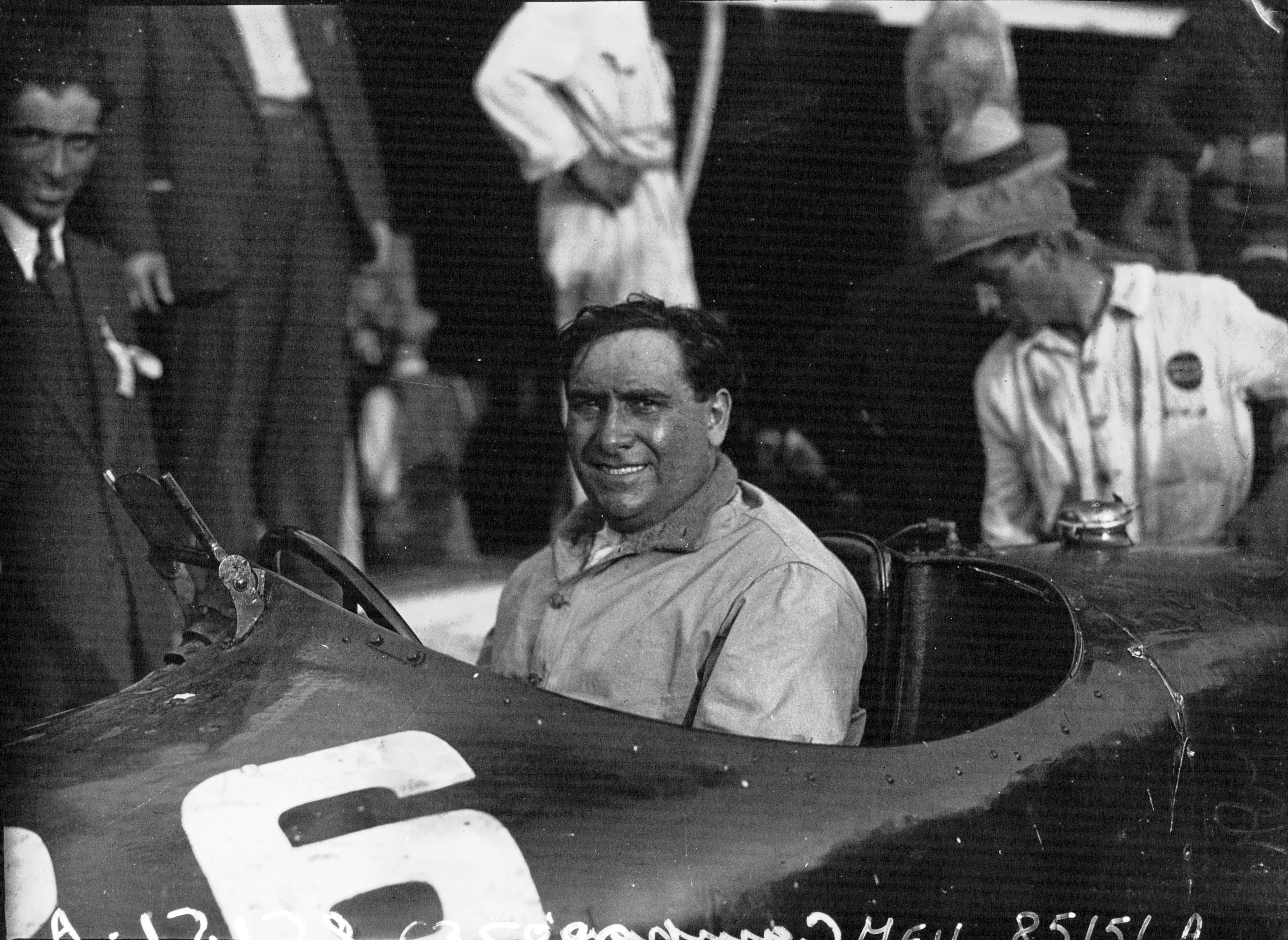 Giuseppe Campari at the 1931 Italian Grand Prix